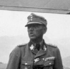 Artur Phleps in Podgorica, Yugoslavia on March 23, 1943